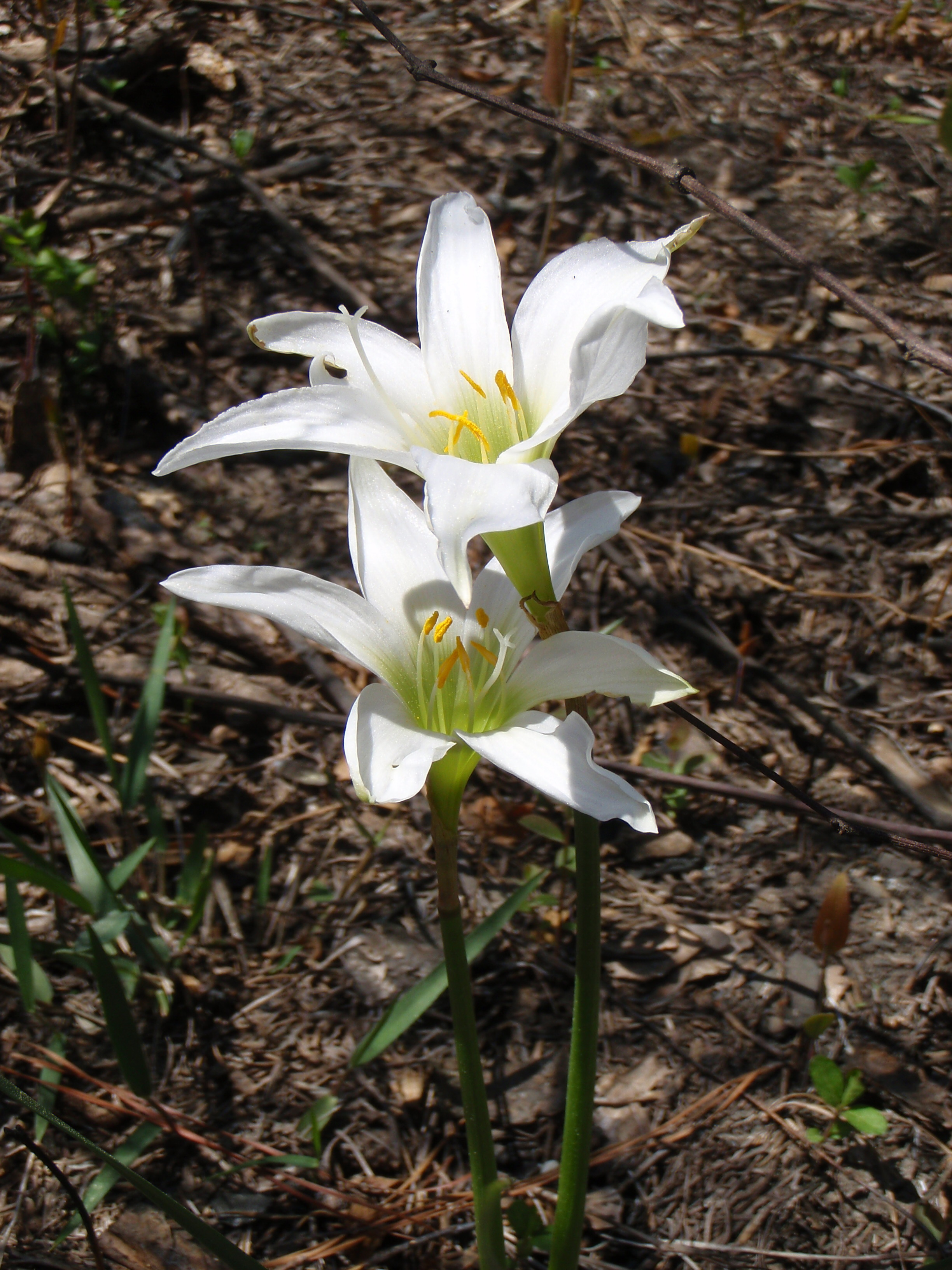 Treats Rain Lilly